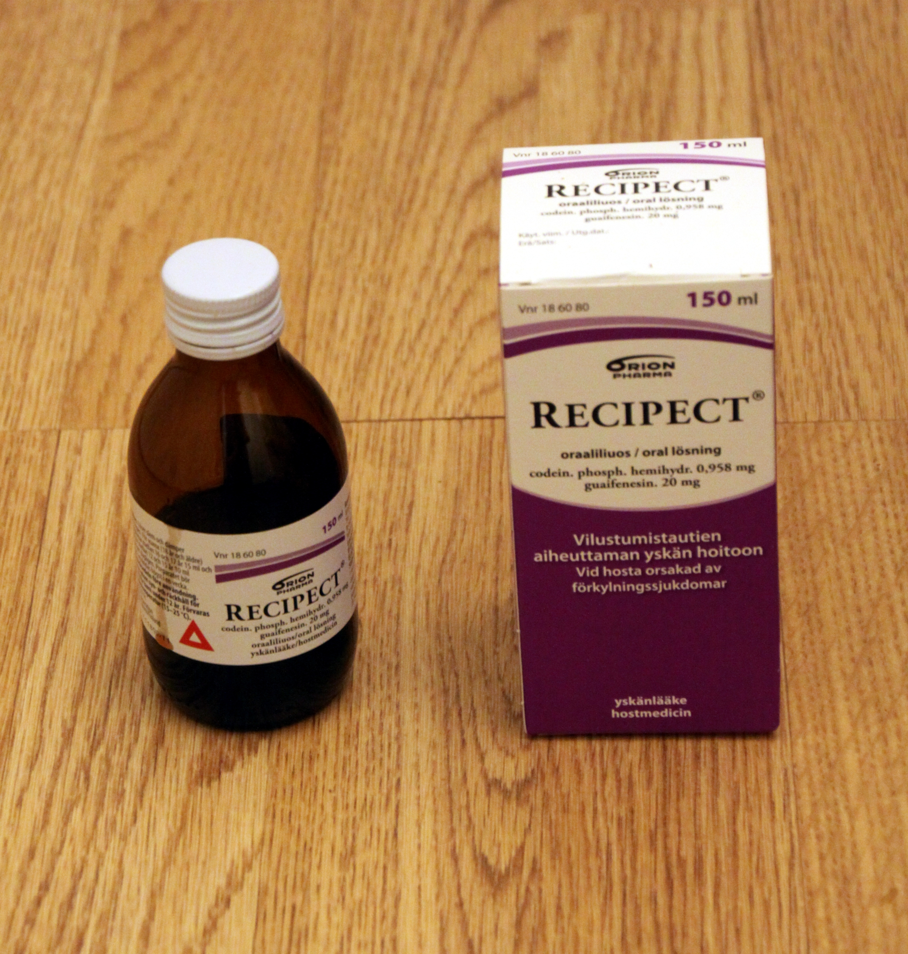 Codeine based finnish cough syrup.